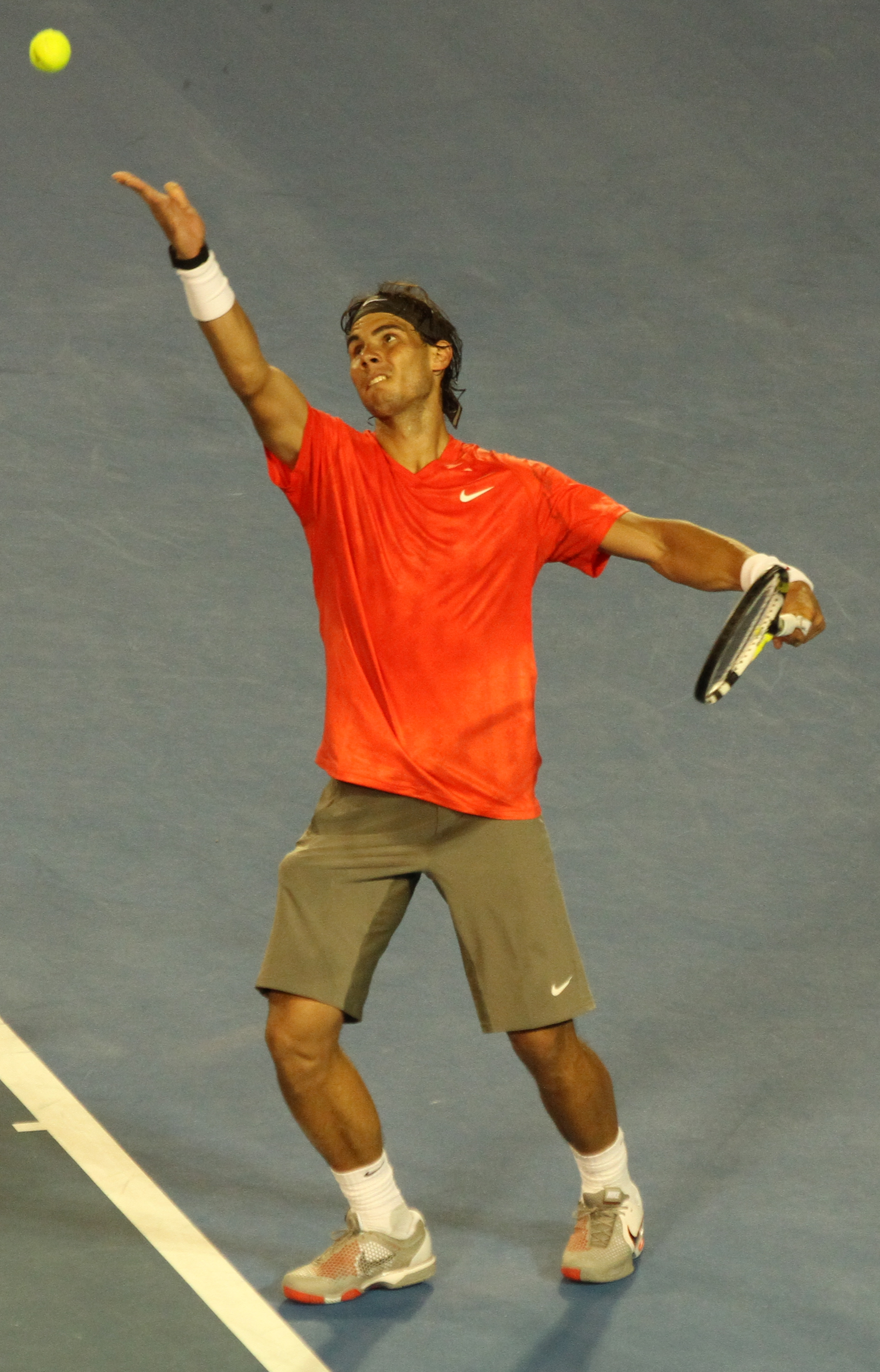 Rafael Nadal at the 2011 Australian Open